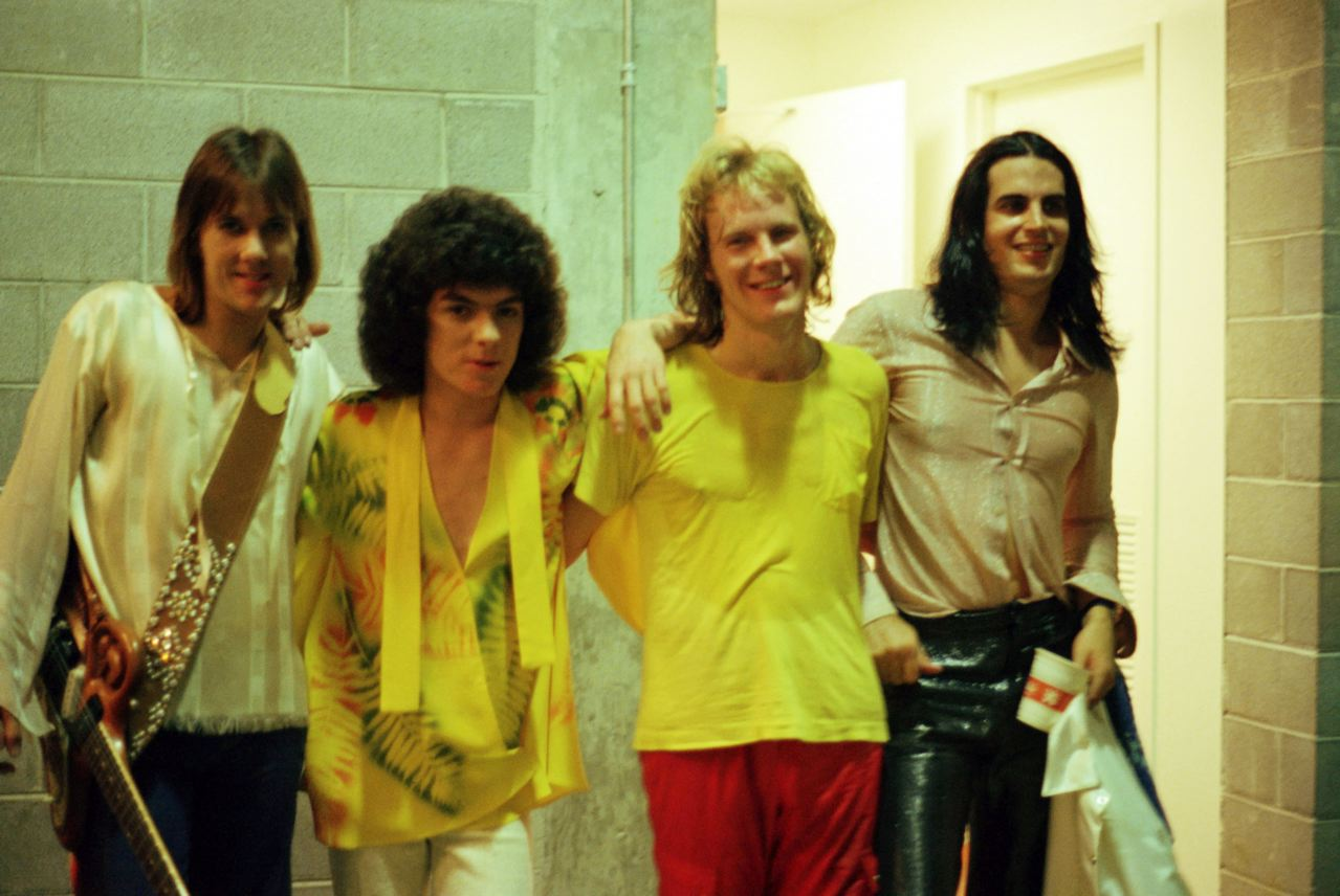 The musical group Ambrosia backstage in the 1970s. L to R: David Pack, Joe Puerta, Burleigh Drummond, Chris North